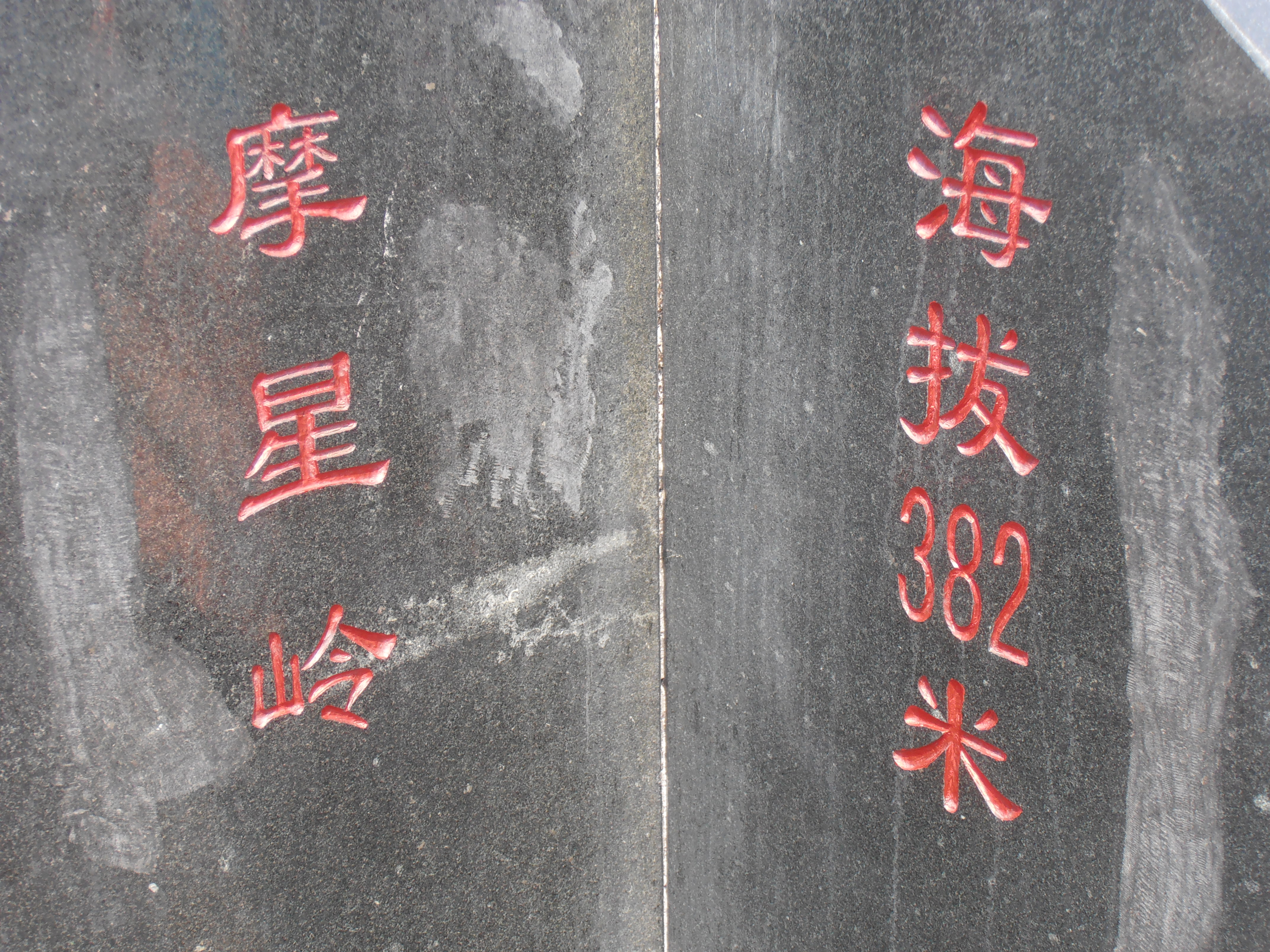 The characters at the highest point on Moxing Mount.